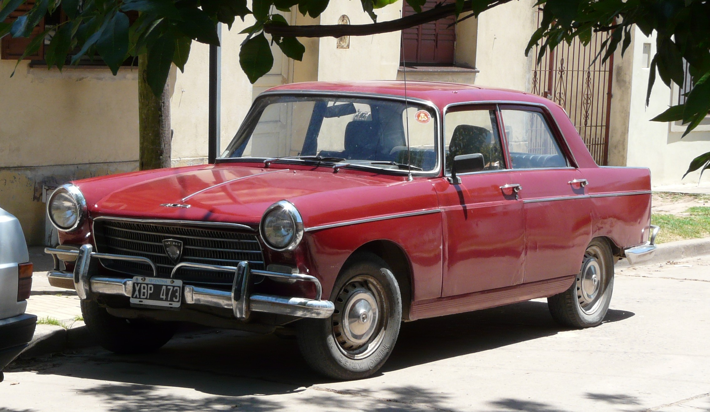 Argentine Peugeot 404, San Antonio de Areco, Argentina, November 2008.